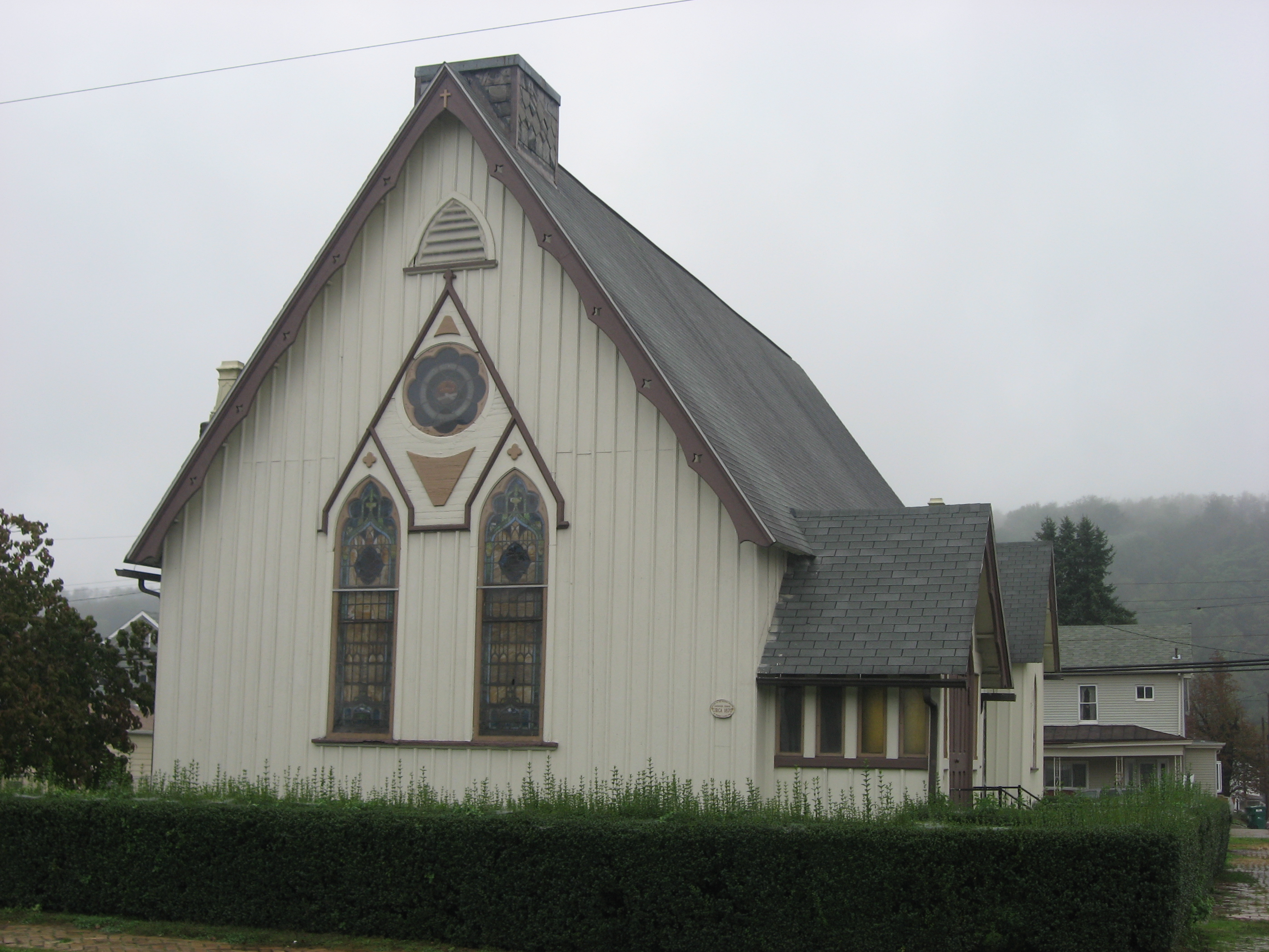 Front and northern side of the Episcopal Church of the Ascension, located at 1101 Eleventh Street in Wellsville, Ohio, United States. Built in 1885, it is listed on the National Register of Historic Places, together with its manse, which has been destroyed.